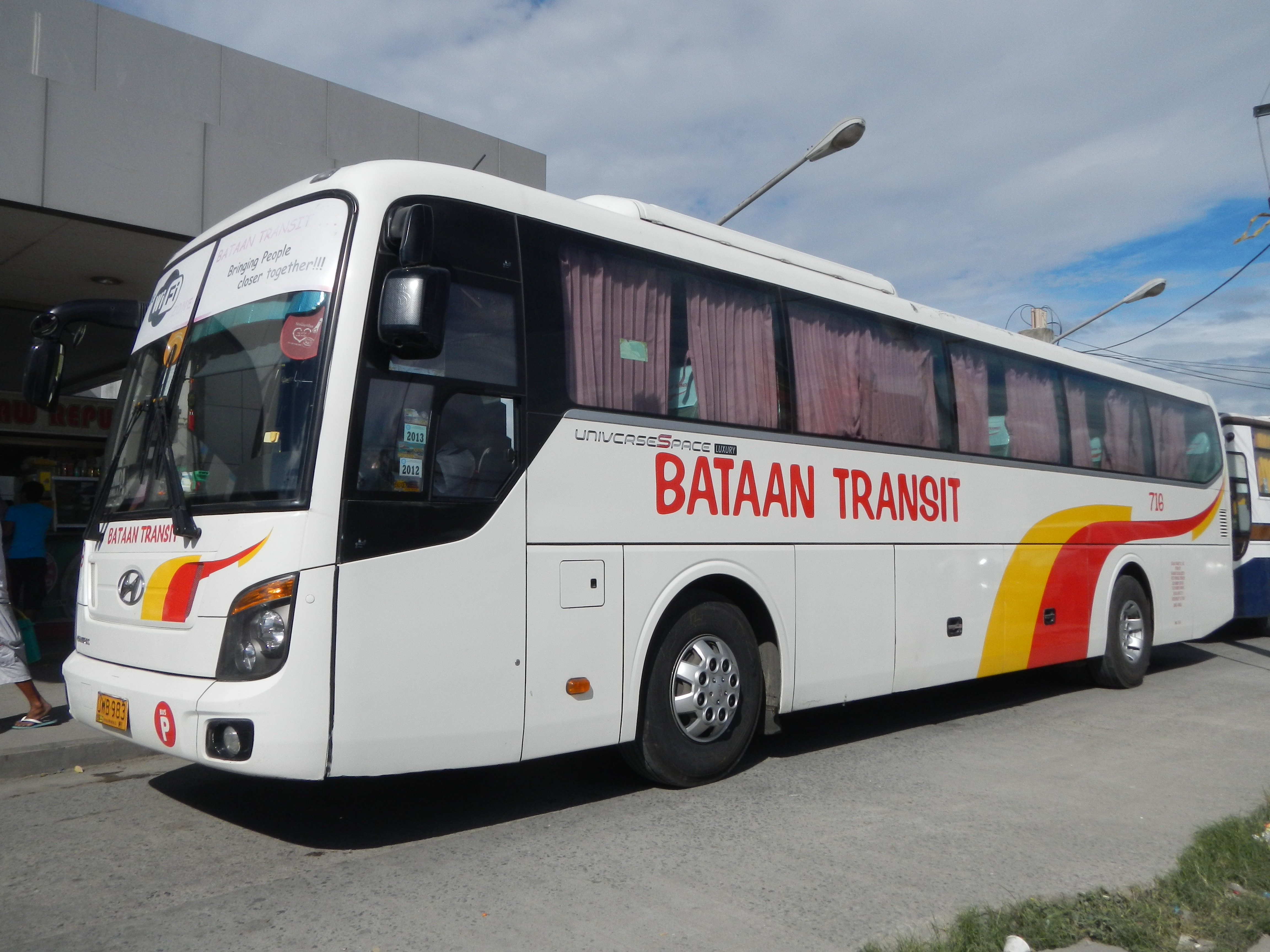 Buses in the Philippines Bataan Transit